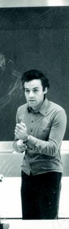 Giovanni Gallavotti, Rennes 1975